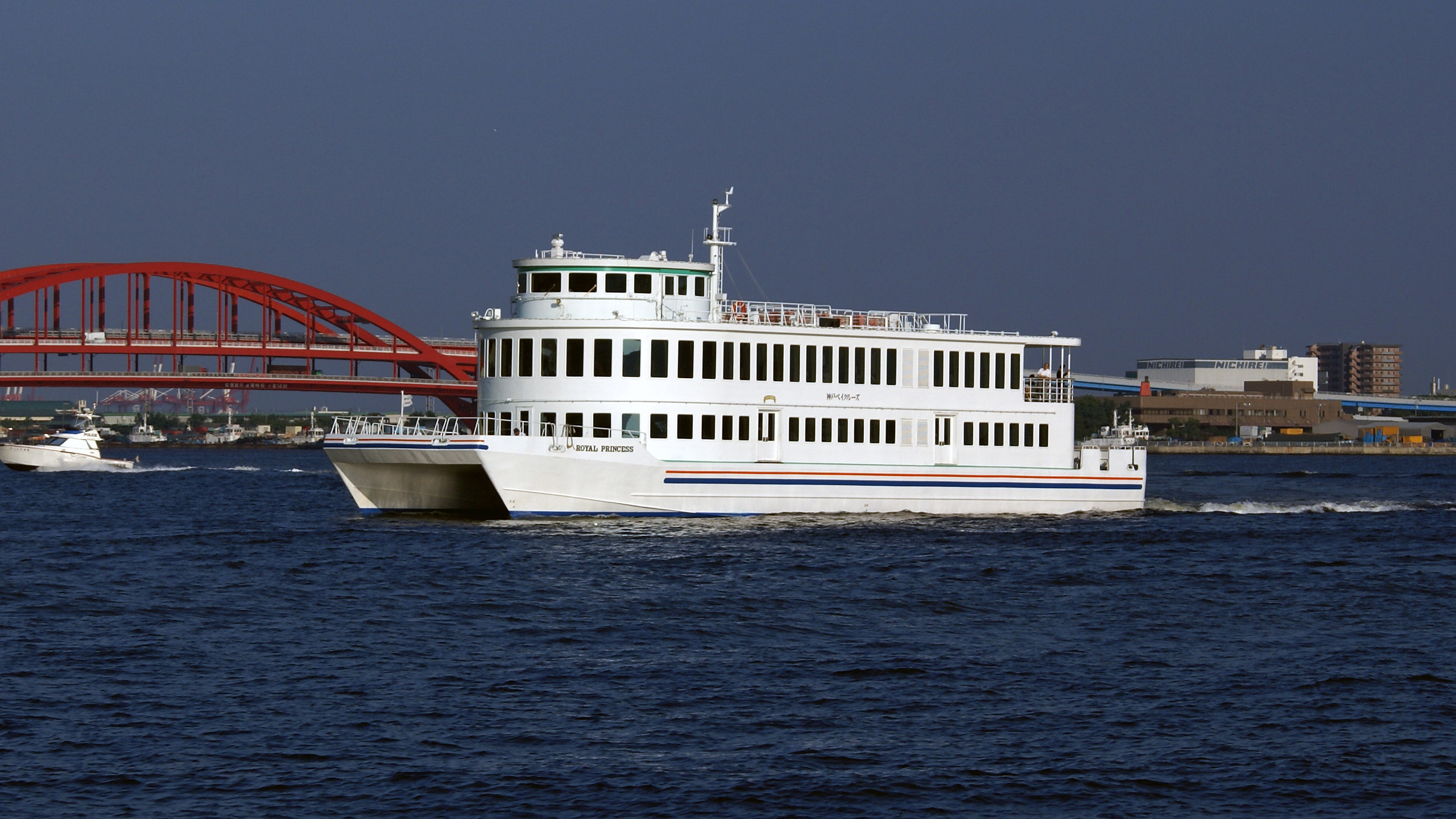 "Royal Princess" who anchors at "Nakatottei Central Terminal" of the Kobe harbor ( Kobe, Hyogo, Japan)